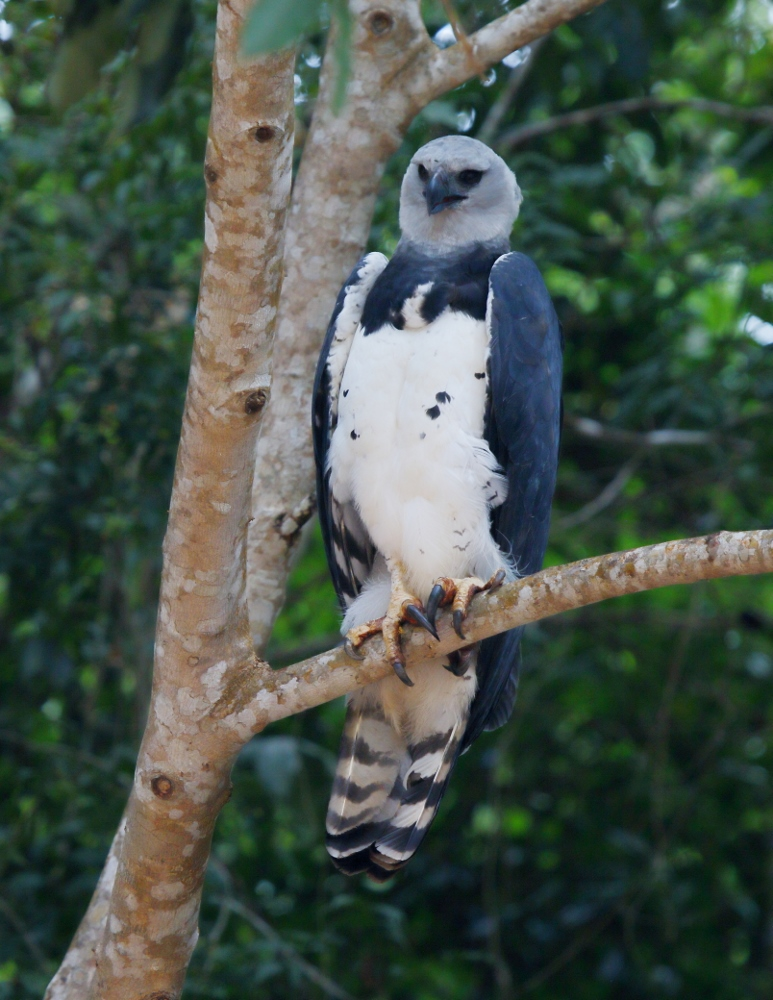 Harpy eagle free at Carajás National Forest - Pará - Brazil